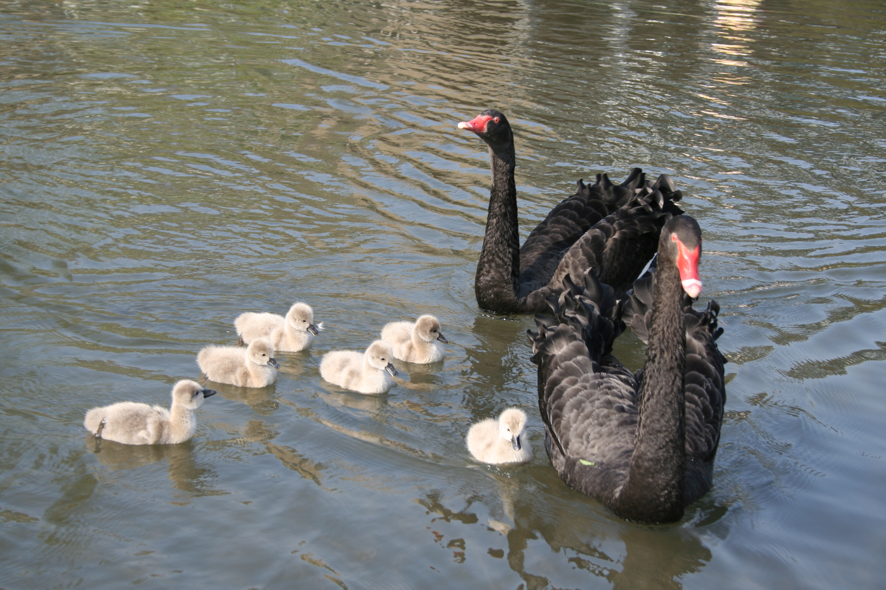 Pair of Black Swans with their cygnets on the lake of the University of York, England.